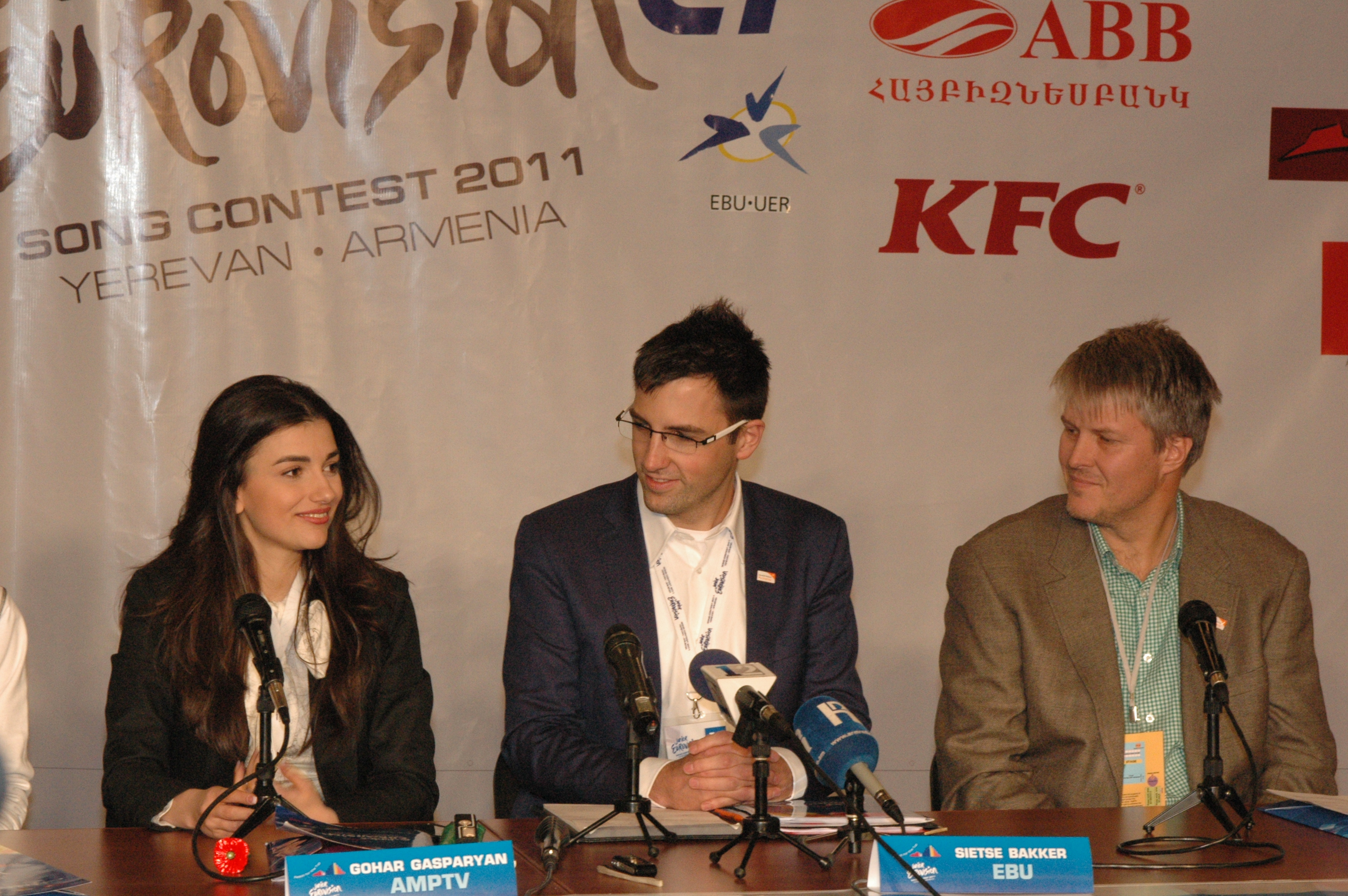 Sietse Bakker at JESC 2011 conference